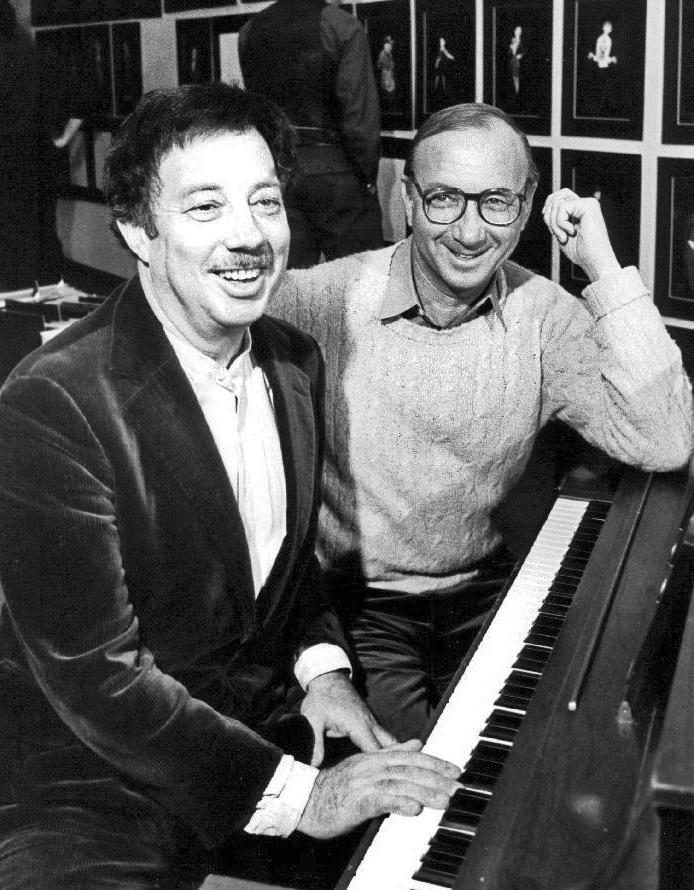 Publicity photo of Cy Coleman and Neil Simon for TV show "A New 'Little Me'"